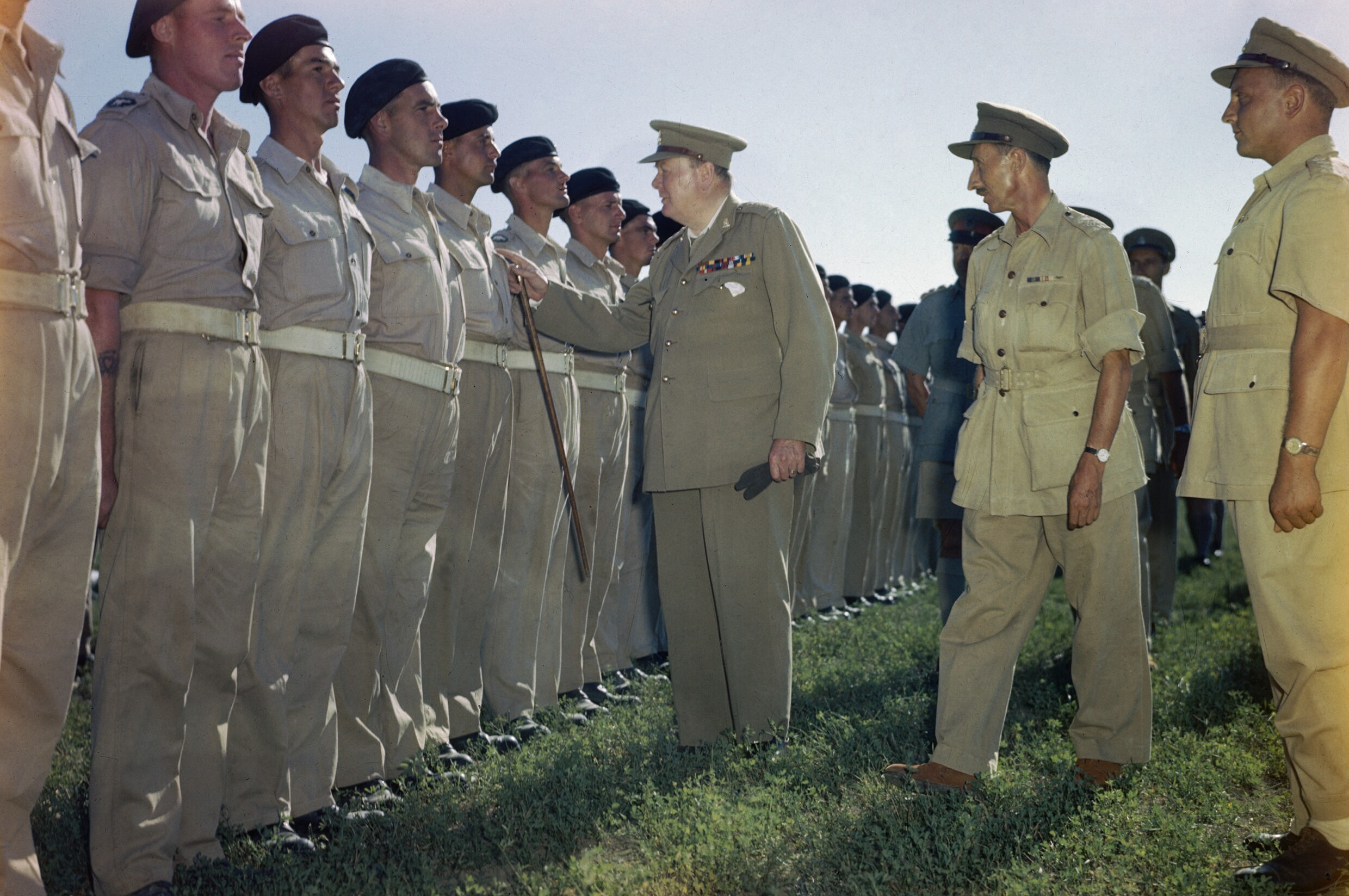 Winston Churchill inspecting men of the 4th Queen's Own Hussars at Loreto aerodrome, Italy, 25 August 1944. The Prime Minister, the Rt Hon Winston Churchill, MP, inspecting the ranks of the 4th Queen's Own Hussars, the regiment with which he served before entering politics. At the time of his visit the Prime Minister was Colonel-in-Chief of the Regiment. He is accompanied by the Commander of the Regiment, Lieutenant R C Kidd. General Sir Harold Alexander, the Supreme Allied Commander in the Mediterranean, is partially visible in the background.